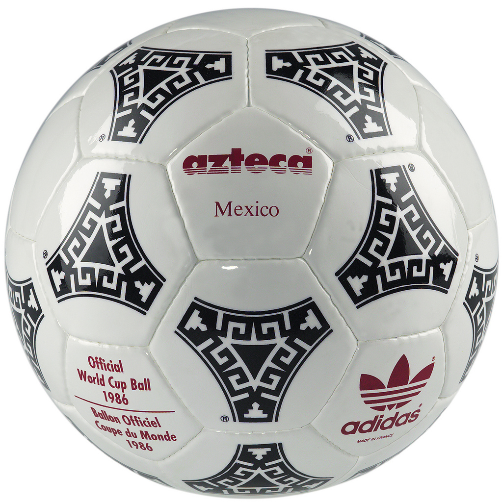 Azteca . FIFA World Cup ball 1986